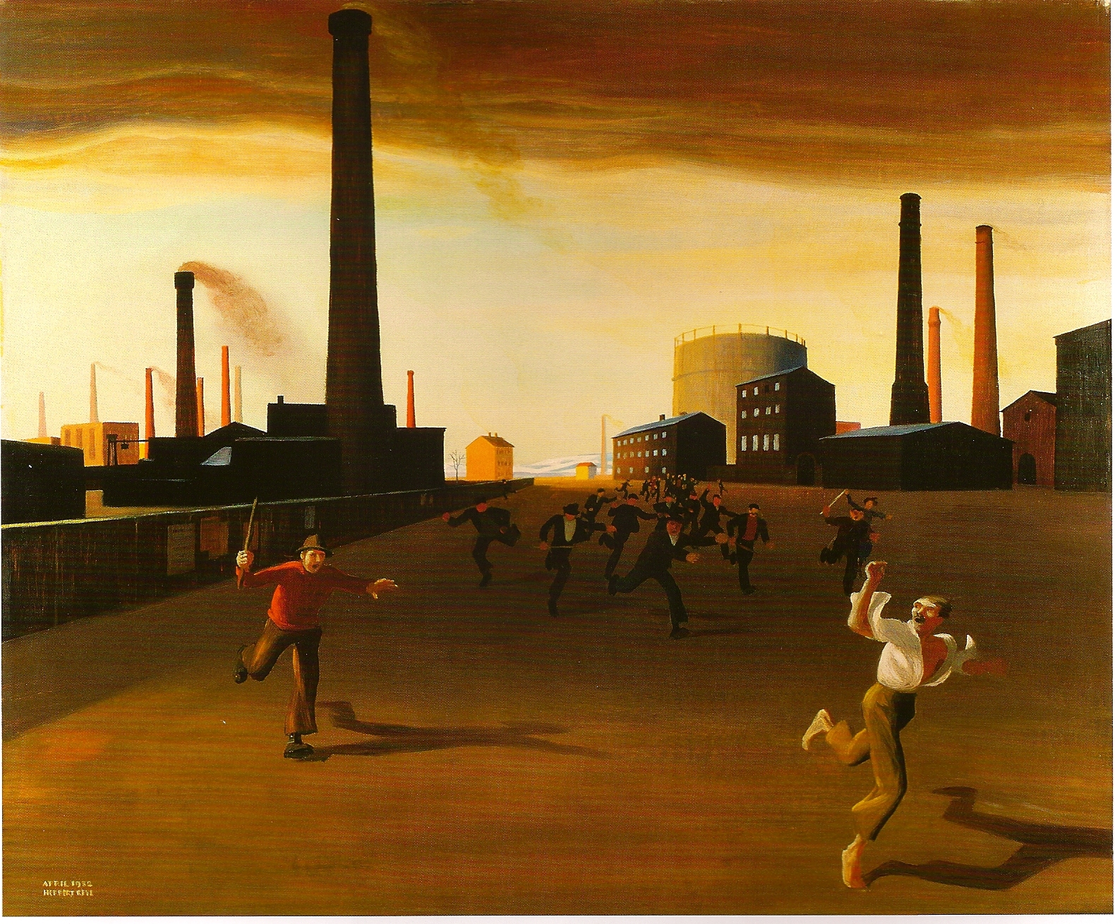 Persecution